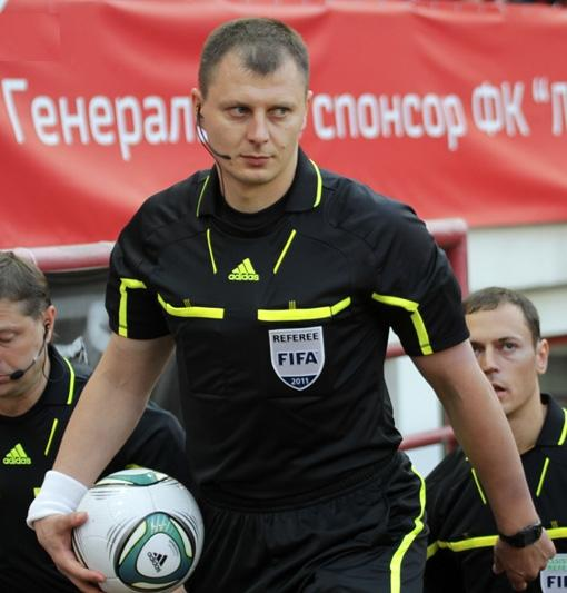 Maksim Layushkin in Lokomotiv Moscow - Spartak Moscow game on June 18, 2011.